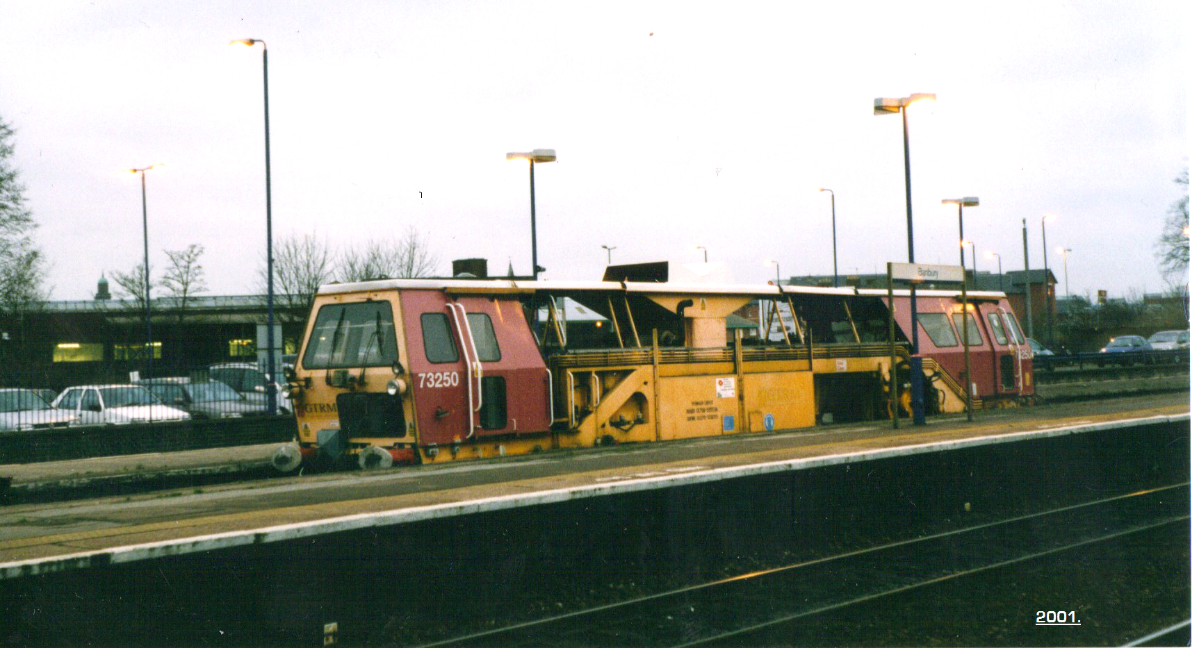 I took this picture of a GTRM track tamper my self at Banbury station in the year 2001. I here by release it in to the public domain.